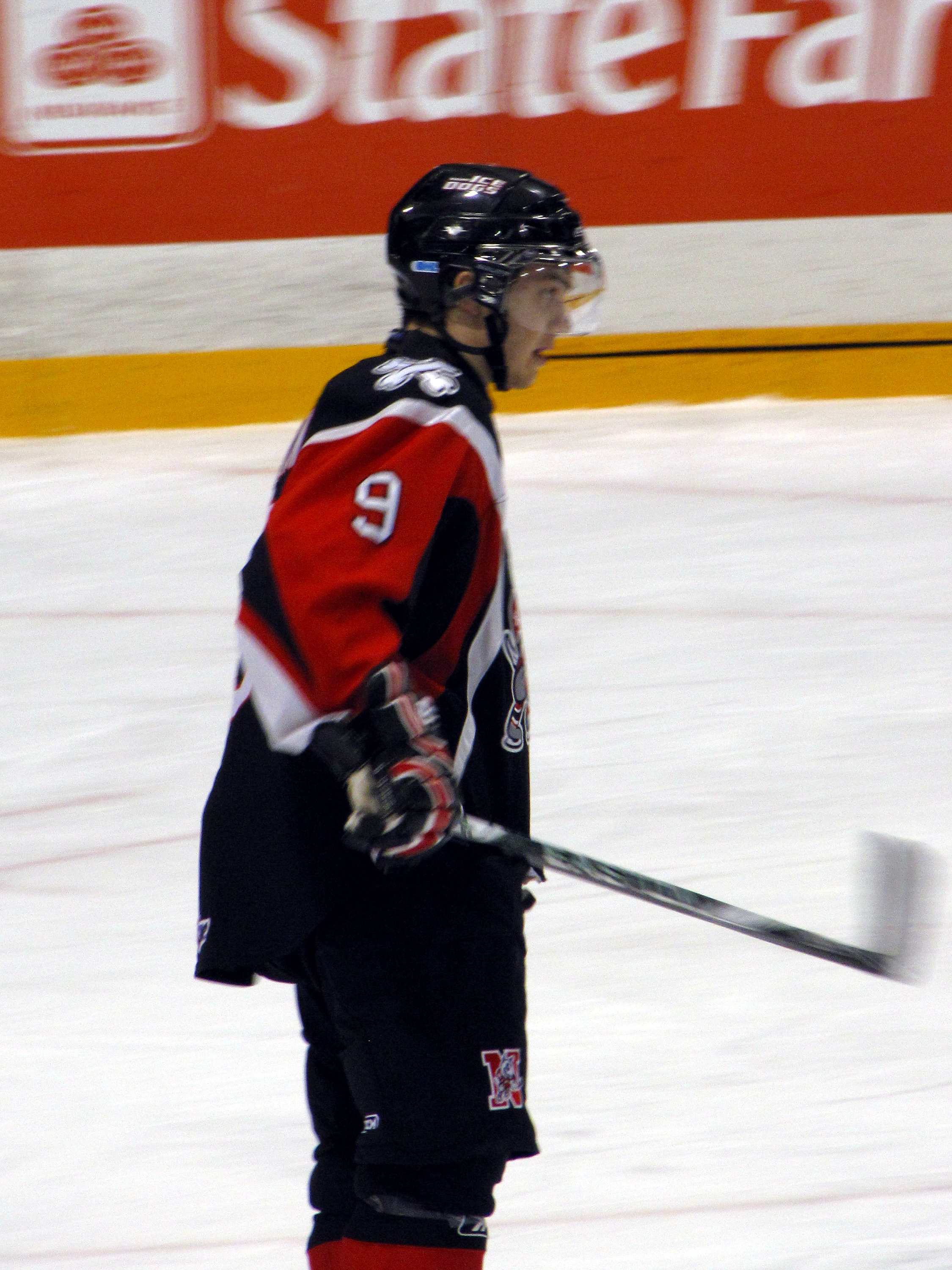 Andrew Agozzino of the Niagara IceDogs.